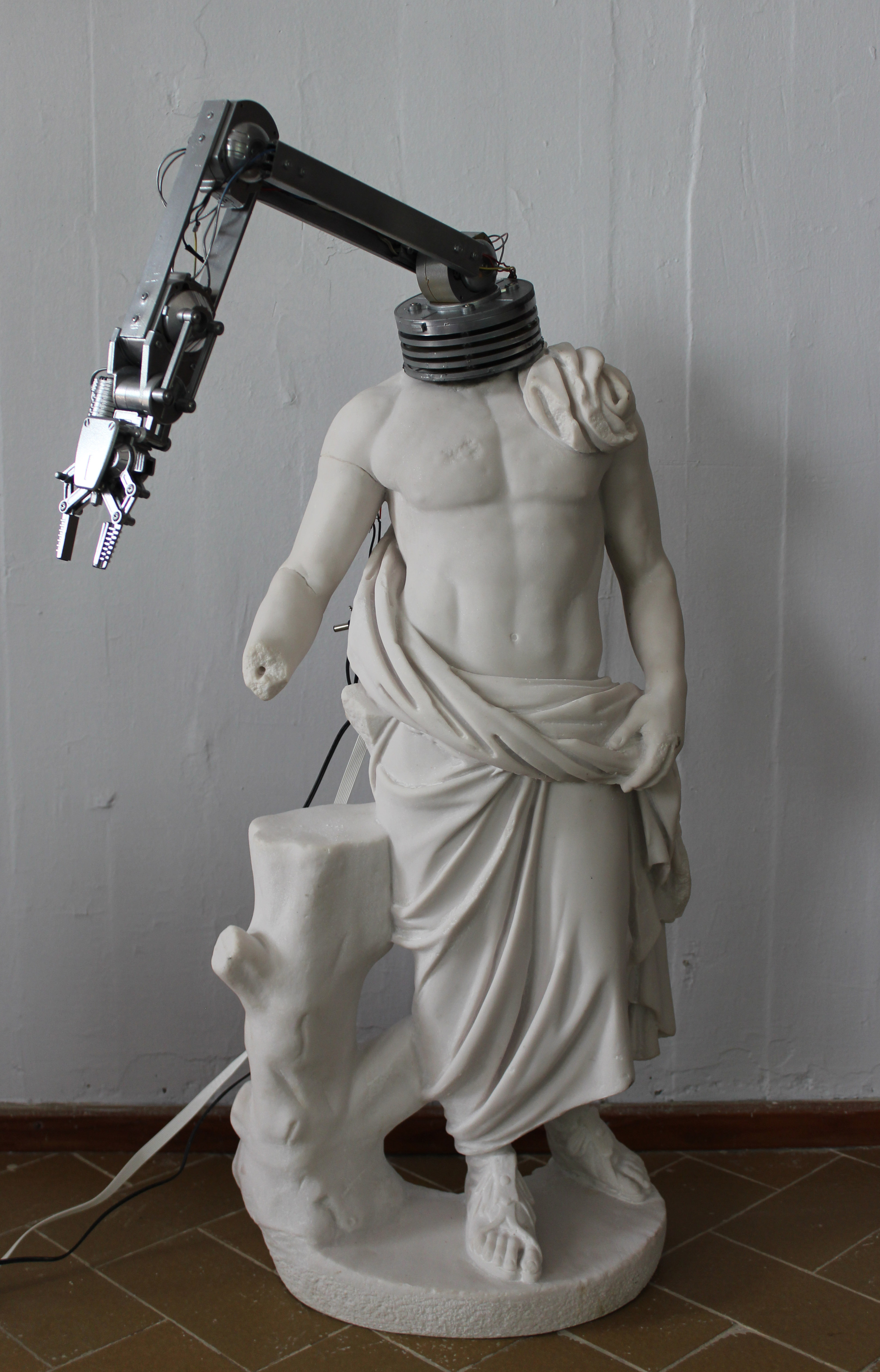 Sculpture, robotic arm. Variable dimensions. Approximately; 120 x 45 x 25cm.